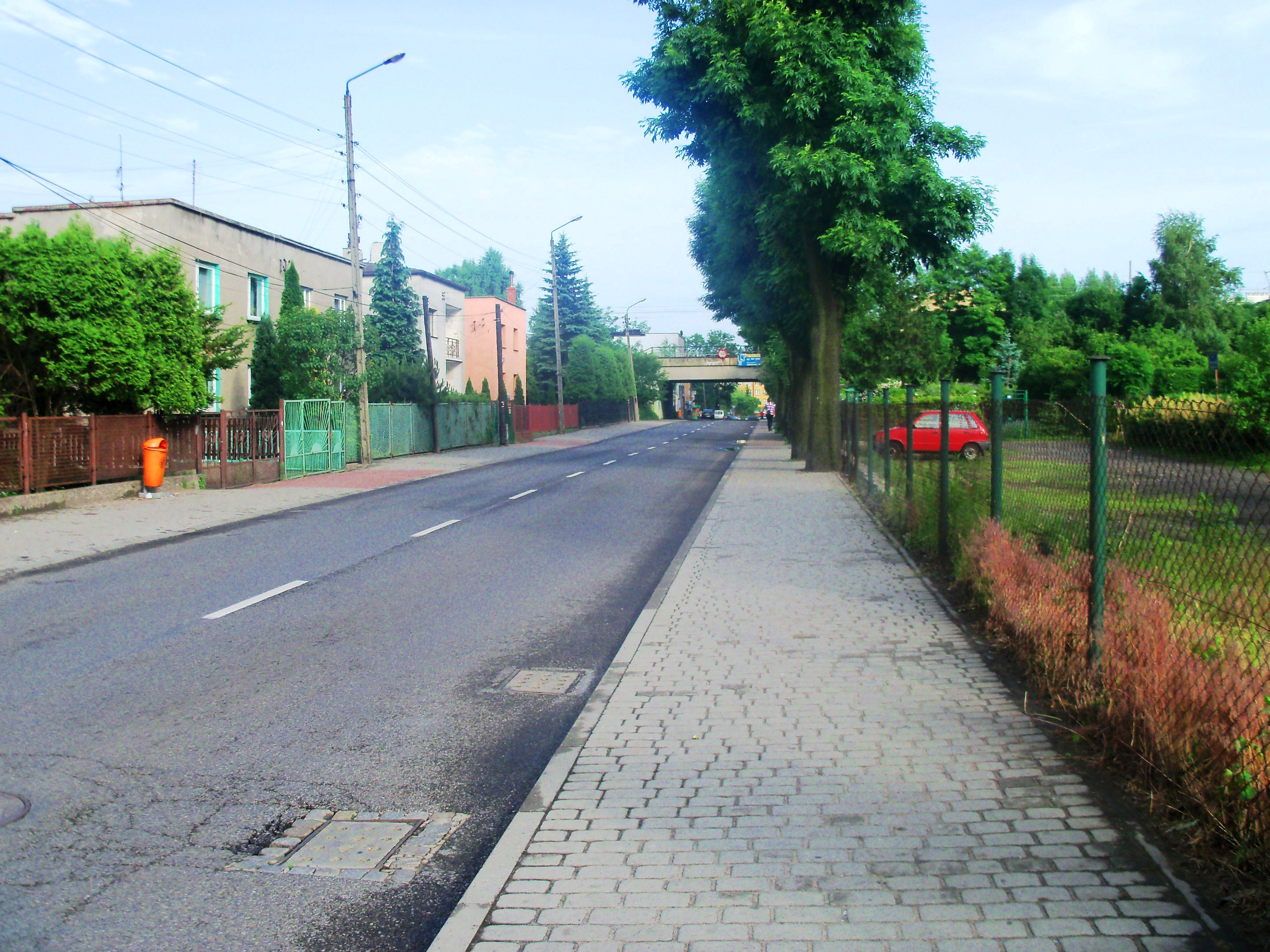 Zamkowa Street in Katowice